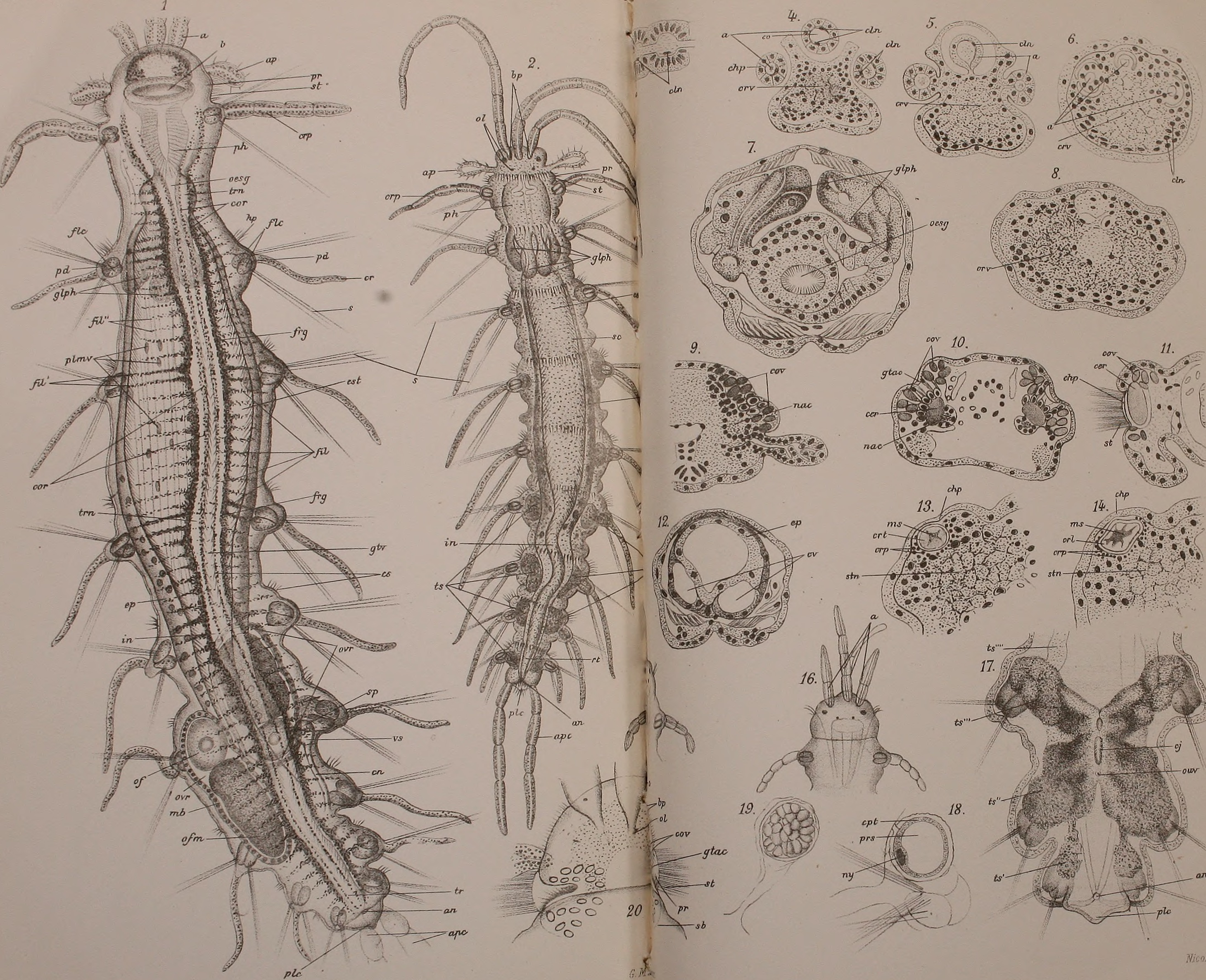 Title: Annales des sciences naturelles Year: 1834 (1830s) Authors: Milne-Edwards, H. (Henri), 1800-1885; Audouin, Jean Victor, 1797-1841; Milne-Edwards, Alphonse, 1835-1900; Perrier, Edmond, 1844-1921; Bouvier, E. -L. , 1856-1944; Grassé, Pierre Paul, 1895- Subjects: Zoology; Biology Publisher: Paris, New York : Masson [etc. ] Text Appearing Before Image: \„n Jrs SriuU..'-"'^^- ZooiT.r.Pu n Text Appearing After Image: ; ?f:«)-Mi3ivzçTC c/éi^ ]VeriUAHix.